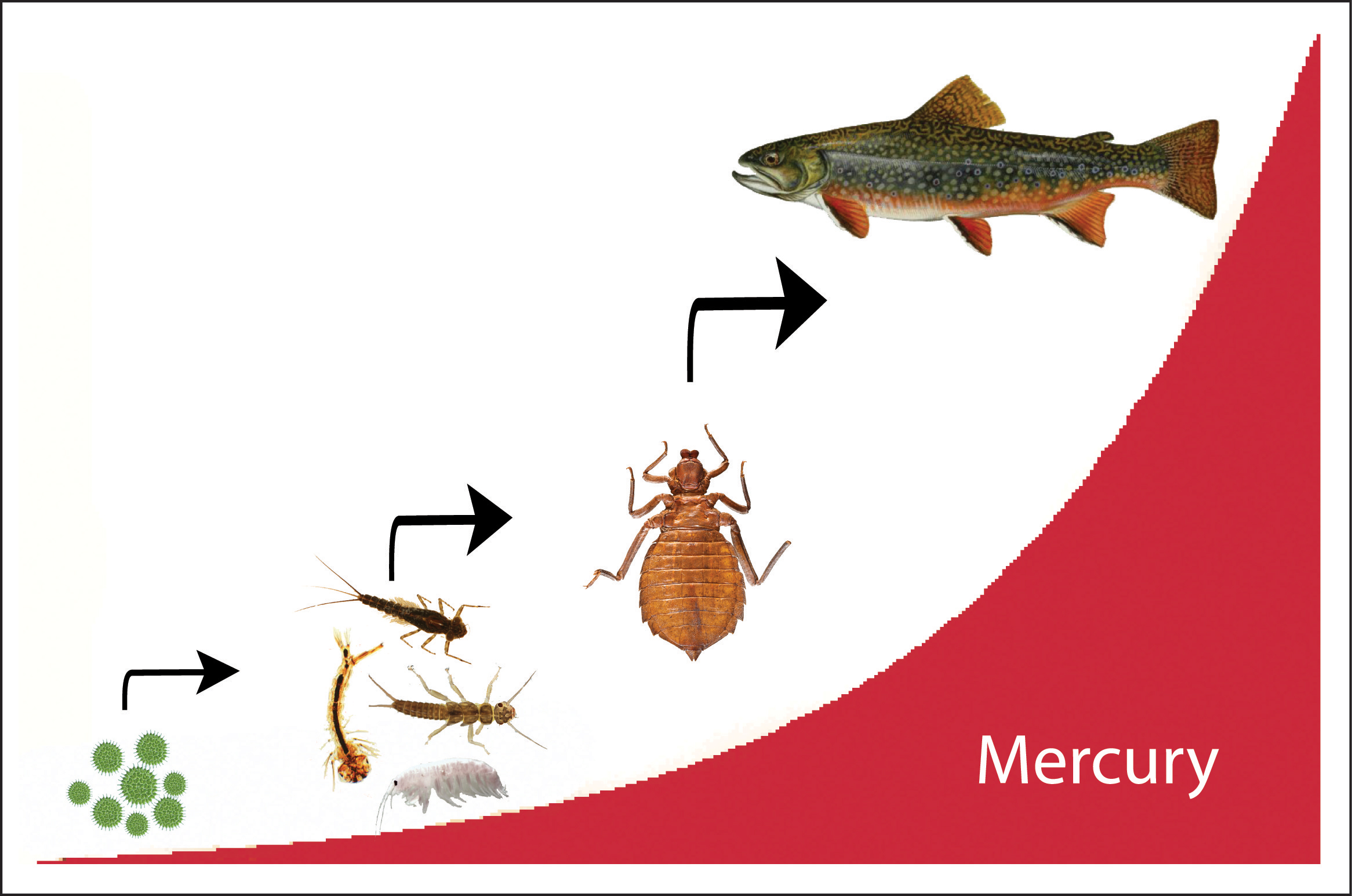 Mercury levels increase exponentially up the food-web as algae are eaten by small invertebrates which are eaten by larger invertebrates (such as dragonfly larvae) which are eaten by fish and other higher order predators. Conceptual illustration of mercury accumulating up the food web. Keywords: graphic; illustration; bioaccumulation; mercury